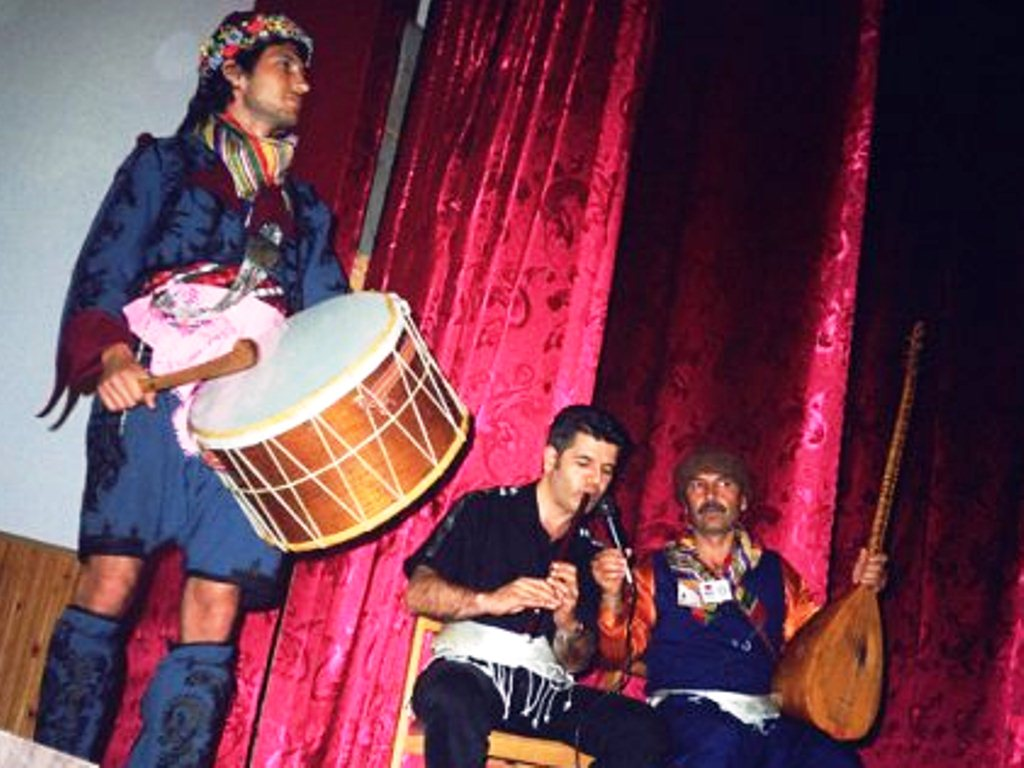 Turks in camp 2004